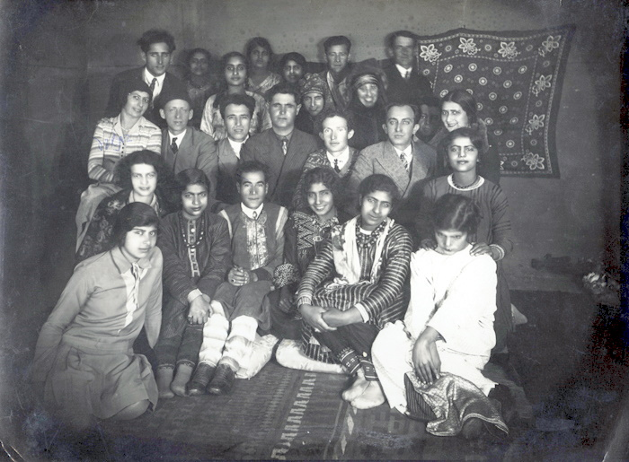 Photograph